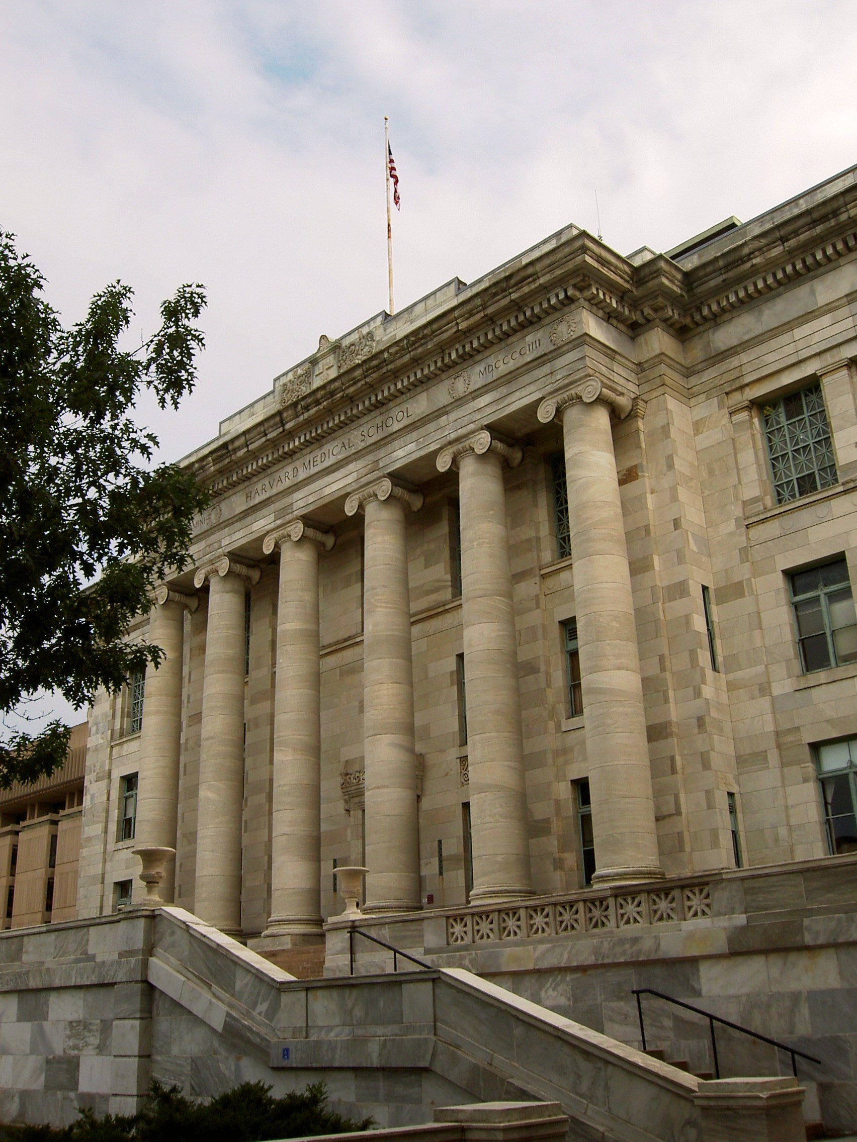 Harvard Medical School Gordon Hall of Medicine